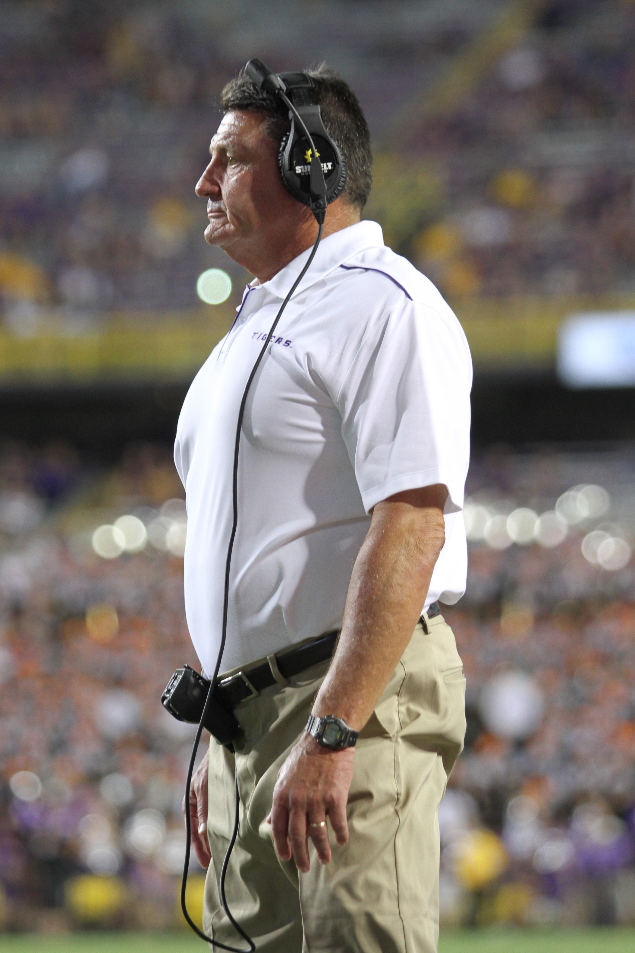 Head Coach, Ed Orgeron, LSU Tigers vs Northwestern LA Demons, September 14, 2019, Tiger Stadium, Baton Rouge, Louisiana, Tammy Anthony Baker, Photographer @tabinla @tmabaker